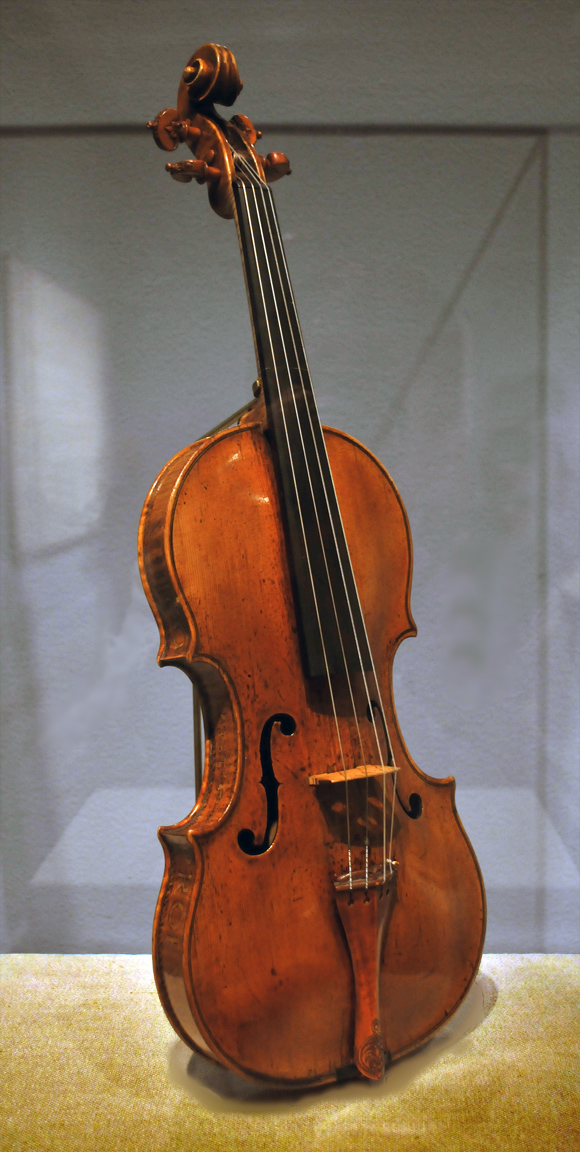 Andrea Amati violin, found at the Metropolitan Museum of Art, New York. This one is part of a group of seven Amati violins, all originally decorated with the lily of the house of Valois, a Latin motto, and a coat of arms. Except for a violin in Paris, the coat of arms –of Philip II of Spain— is worn off all the instruments. The motto was that of Catherine de’ Medici, queen of Henri II of France and mother of the future Charles IX: QUO UNICO PROPUGNACULO STAT STABITQUE RELIGIO (Religion is and shall always be the only fortress). The instruments may have been gifts to celebrate a royal marriage. In 1559 Elisabeth de Valois . . . was married to Philip II of Spain. The political union, part of the treaty of Cateau-Cambresis, ended a sixty-year conflict between France and Spain . . . The violin may have been made as early as 1558 to celebrate this important union, making it one of the earliest violins in existence.